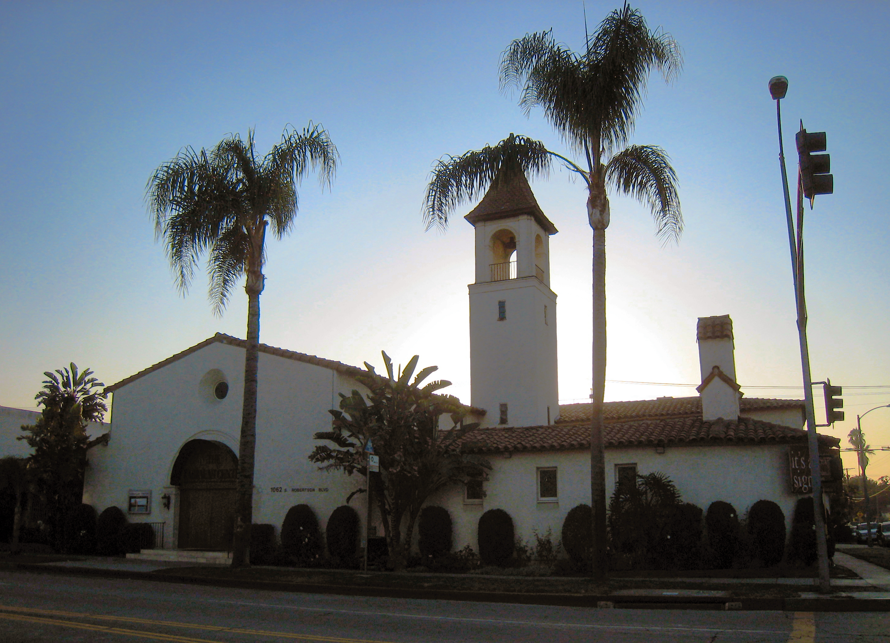 Kabbalah Center on Robertson Boulevard in Los Angeles, California